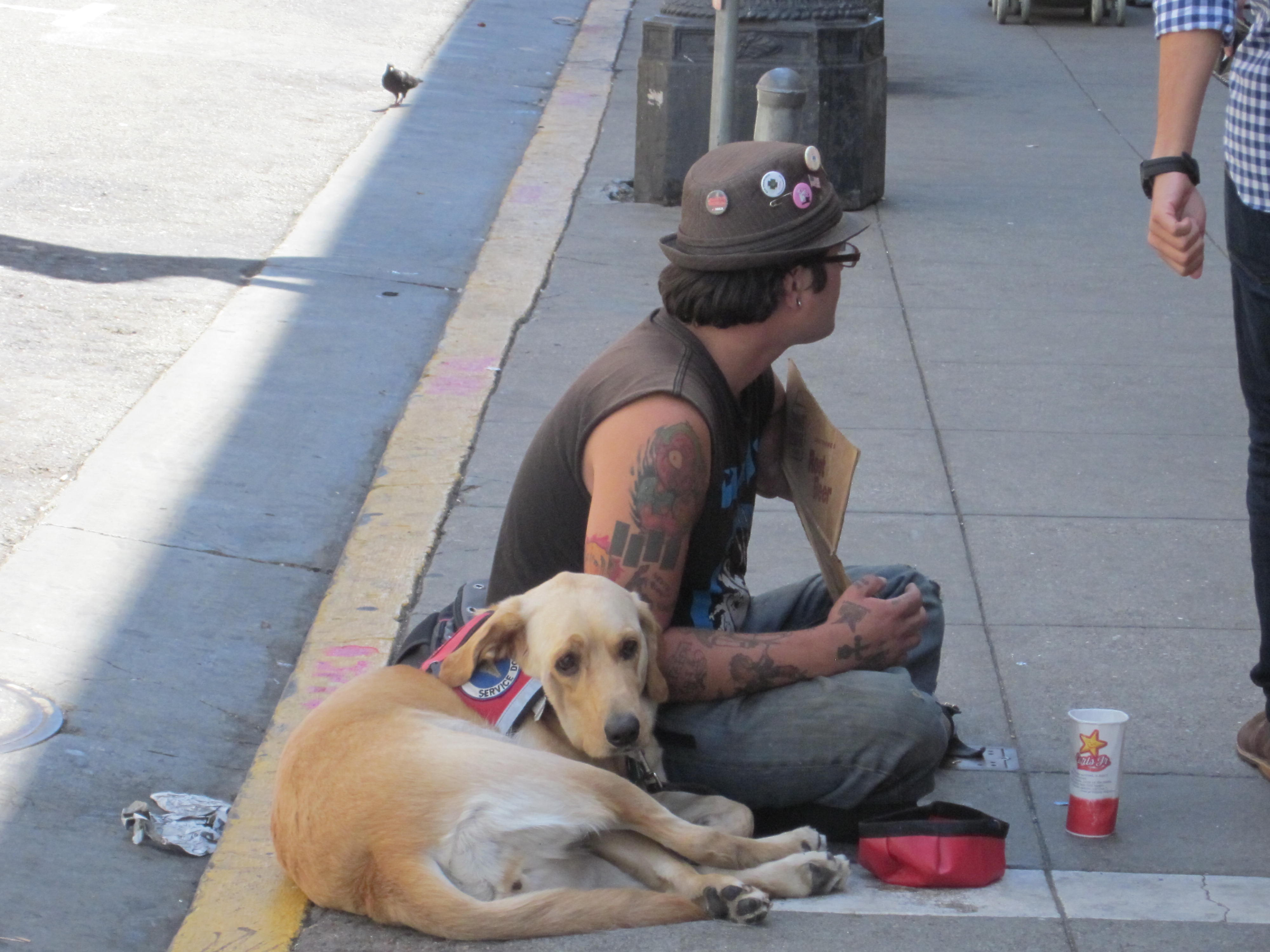 A panhandler on Powell Street in San Francisco.